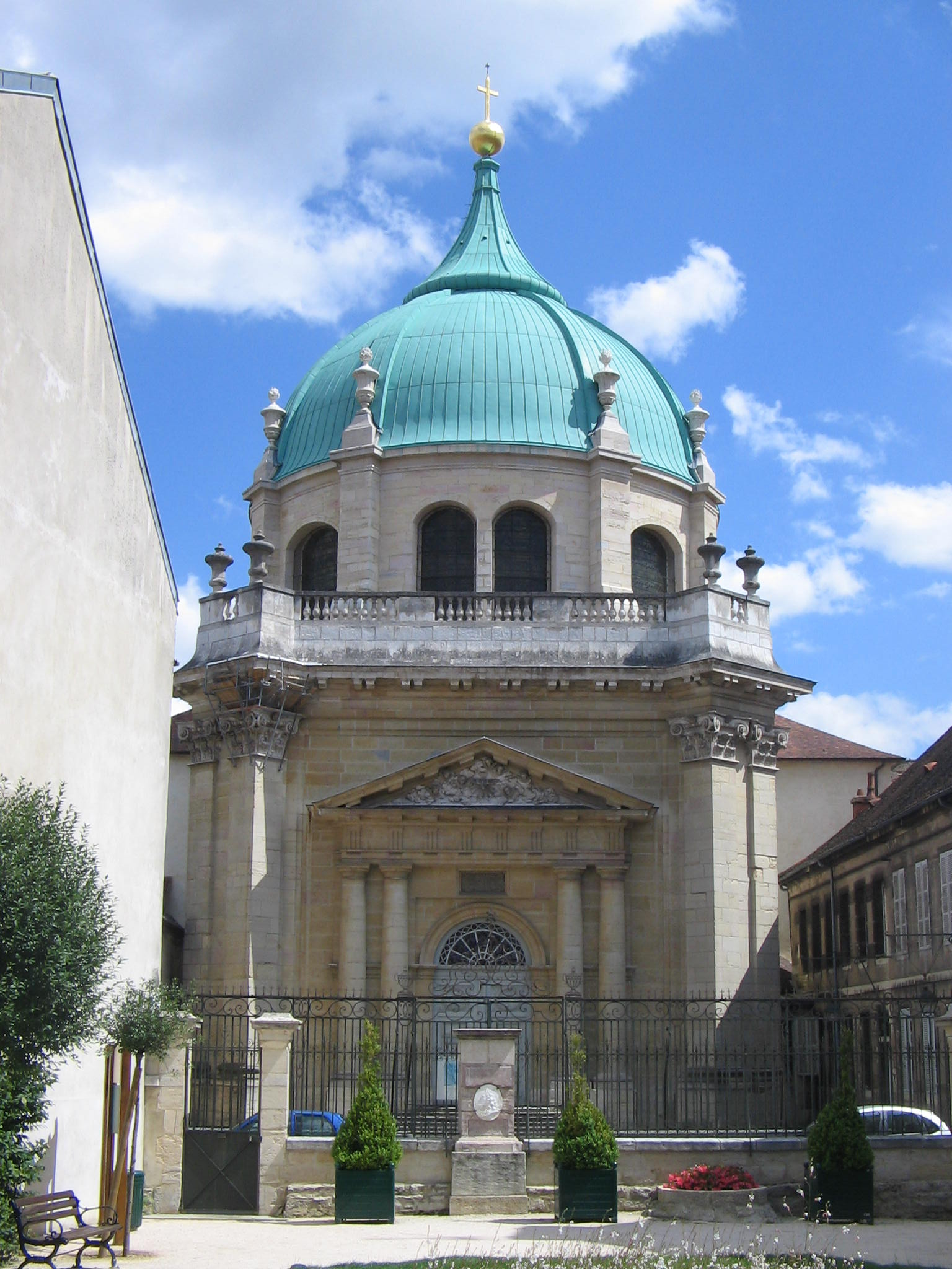 Dijon : Ste-Anne church, now a museum dedicated to liturgic apparatus, rue Ste-Anne.